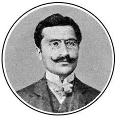 Levon Larents was an Armenian writer who died during the Armenian Genocide